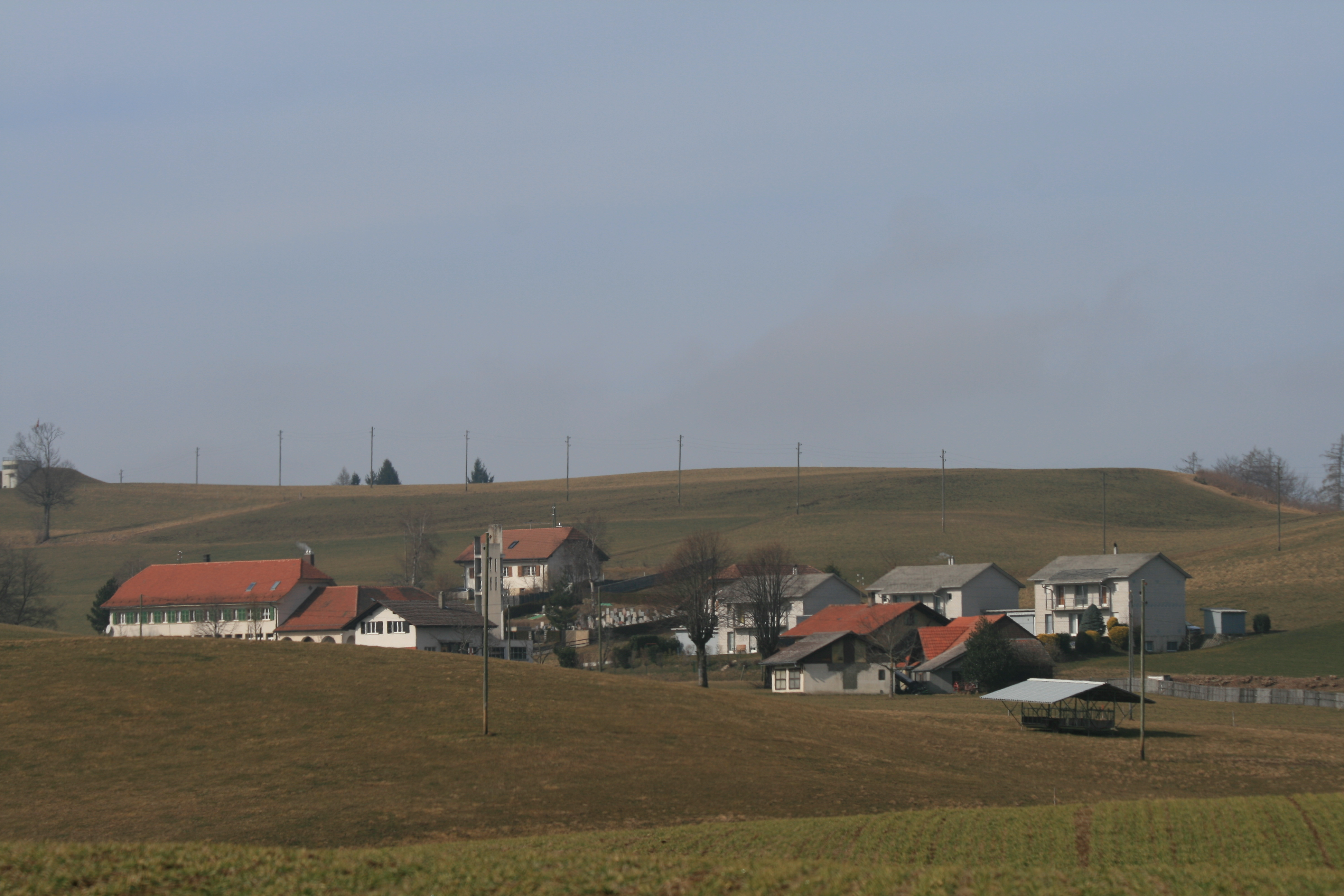 Weissenstein, Rechthalten